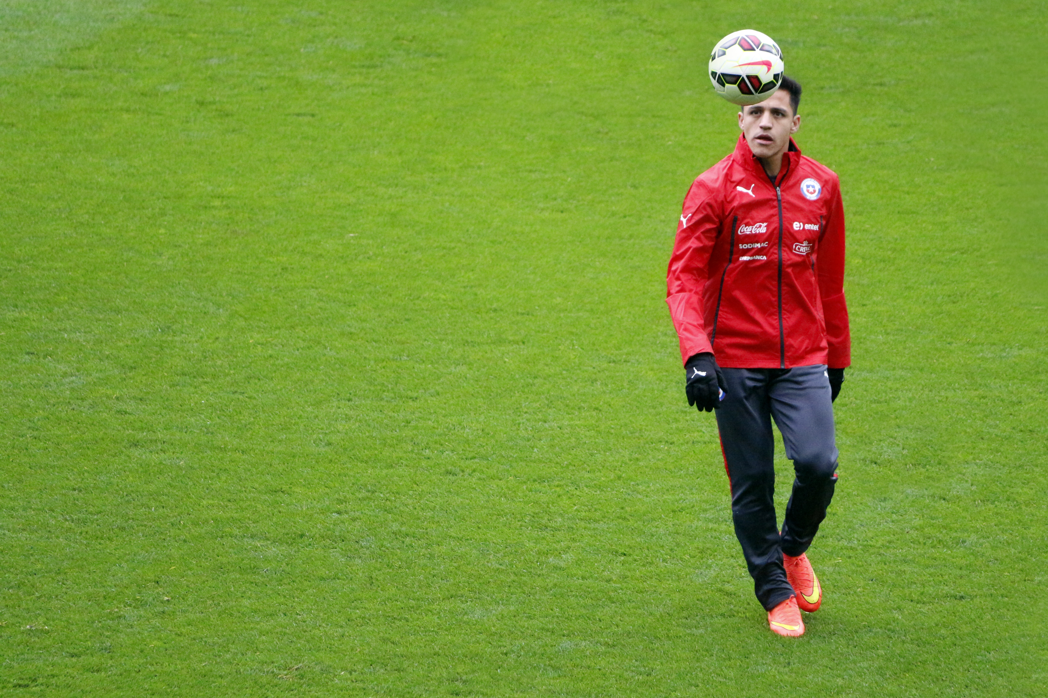 Alexis Sánchez Brazil vs Chile, International Friendly, 29th March, 2015, Emirates Stadium, London